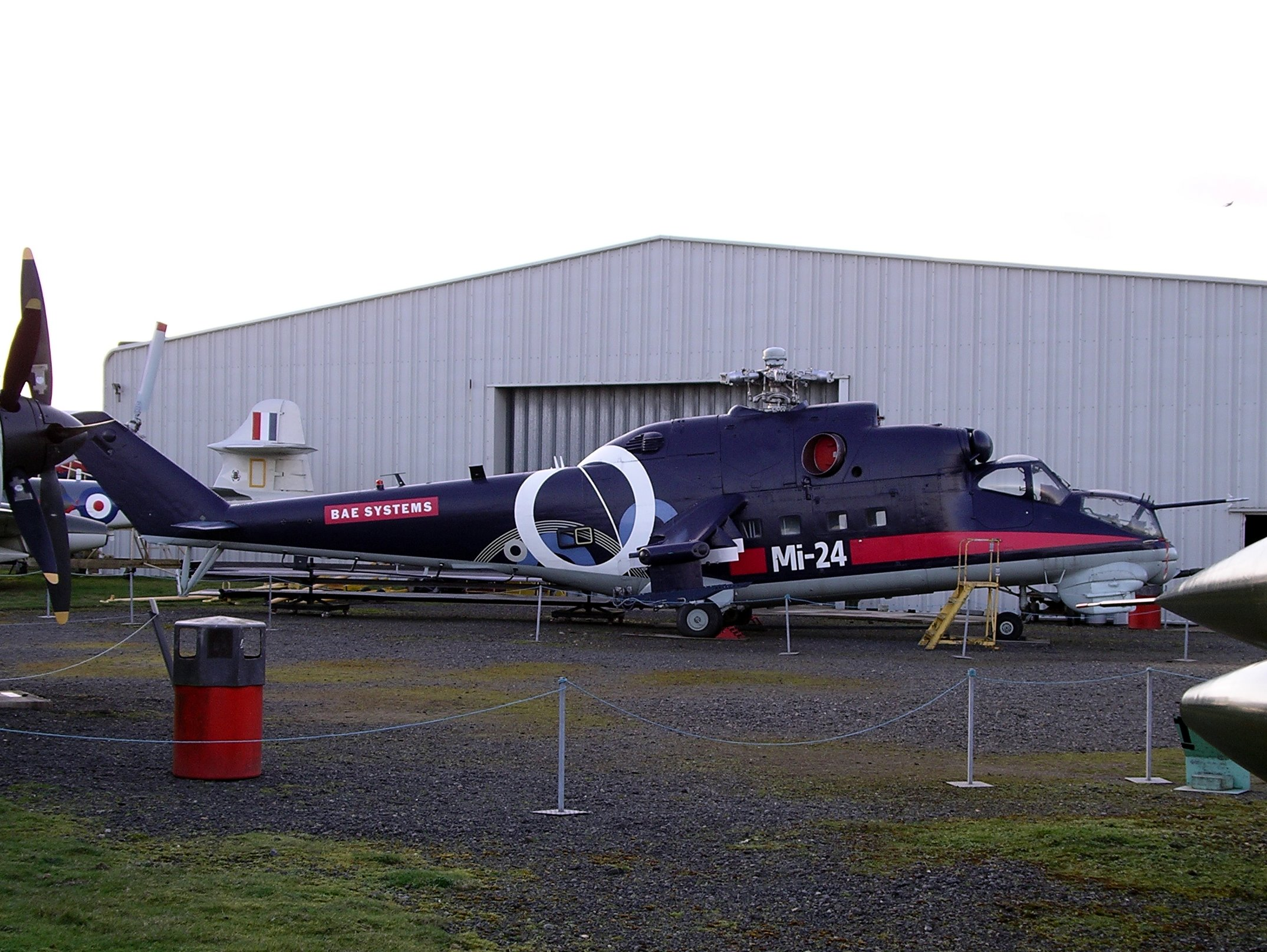 Helicopter Mi24 at the Midland Air Museum, Warwickshire, England.